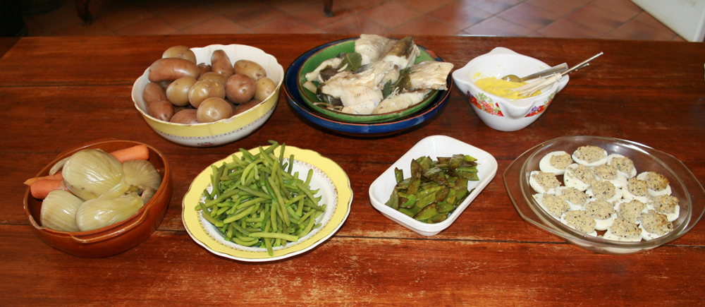 Aioli-garni, dish of Provence containing cod and Garlic mayonnaise